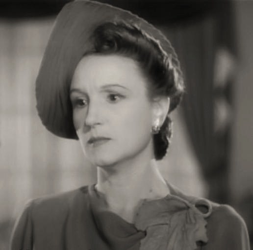 Olive Blakeney in That Uncertain Feeling - cropped screenshot